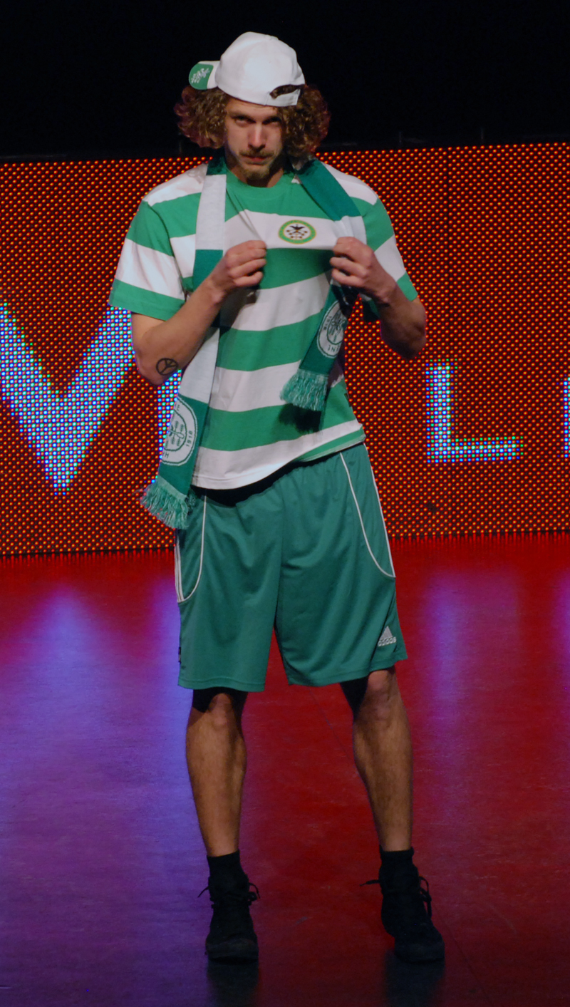 Arnar Førsund of HamKam, 2009 season kick off.